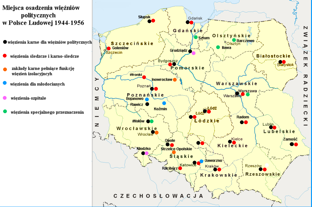 Prisons for political prisoners in communist Poland 1944-1956